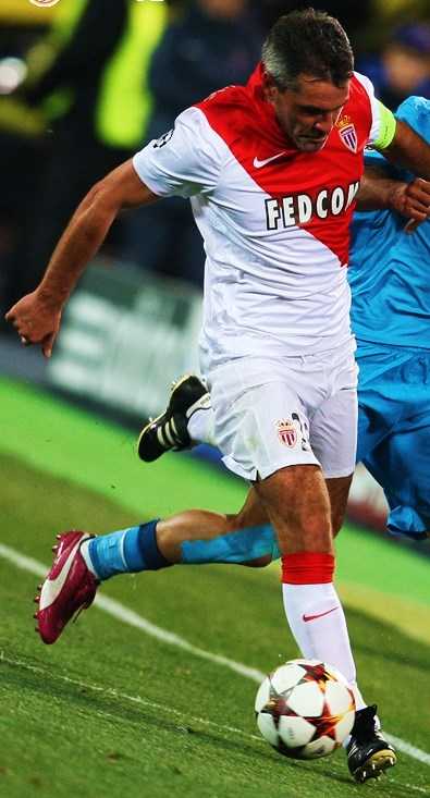 Jérémy Toulalan